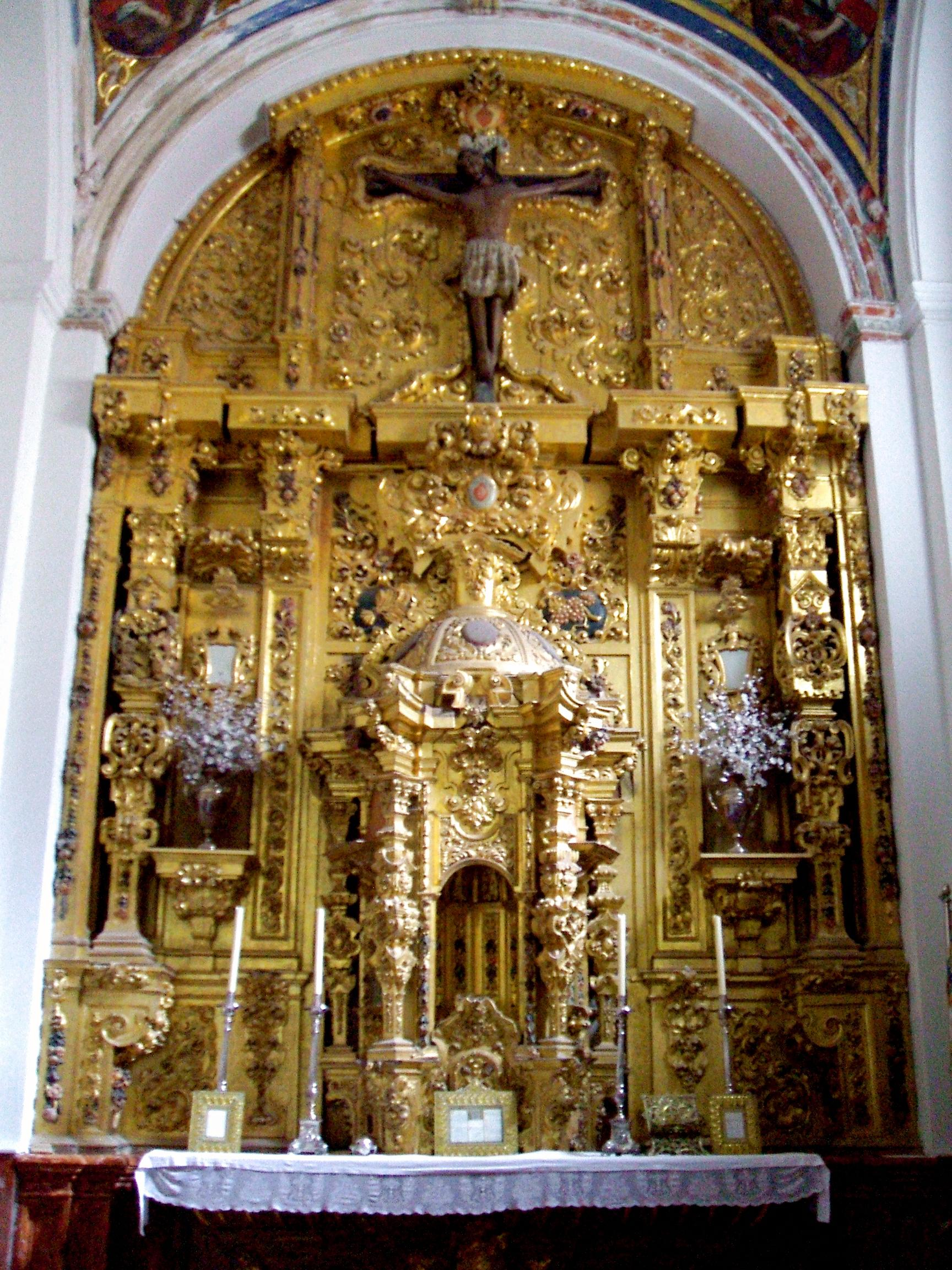 Capilla del Sagrario de la Catedral de Baeza (Jaén, Andalucía, España)